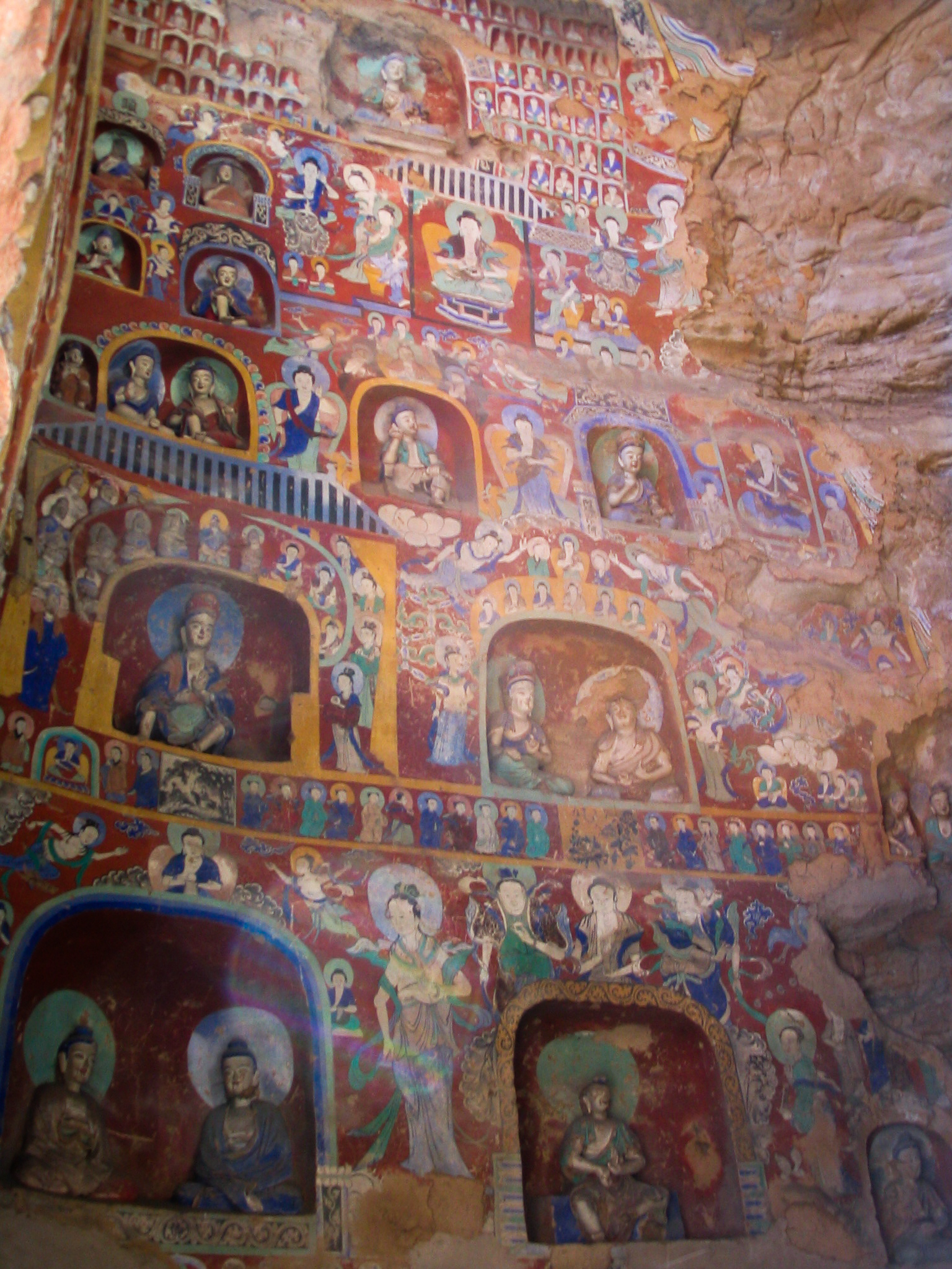 Buddhist paintings. Yungang Grottoes, near Datong, Shanxi province, China.